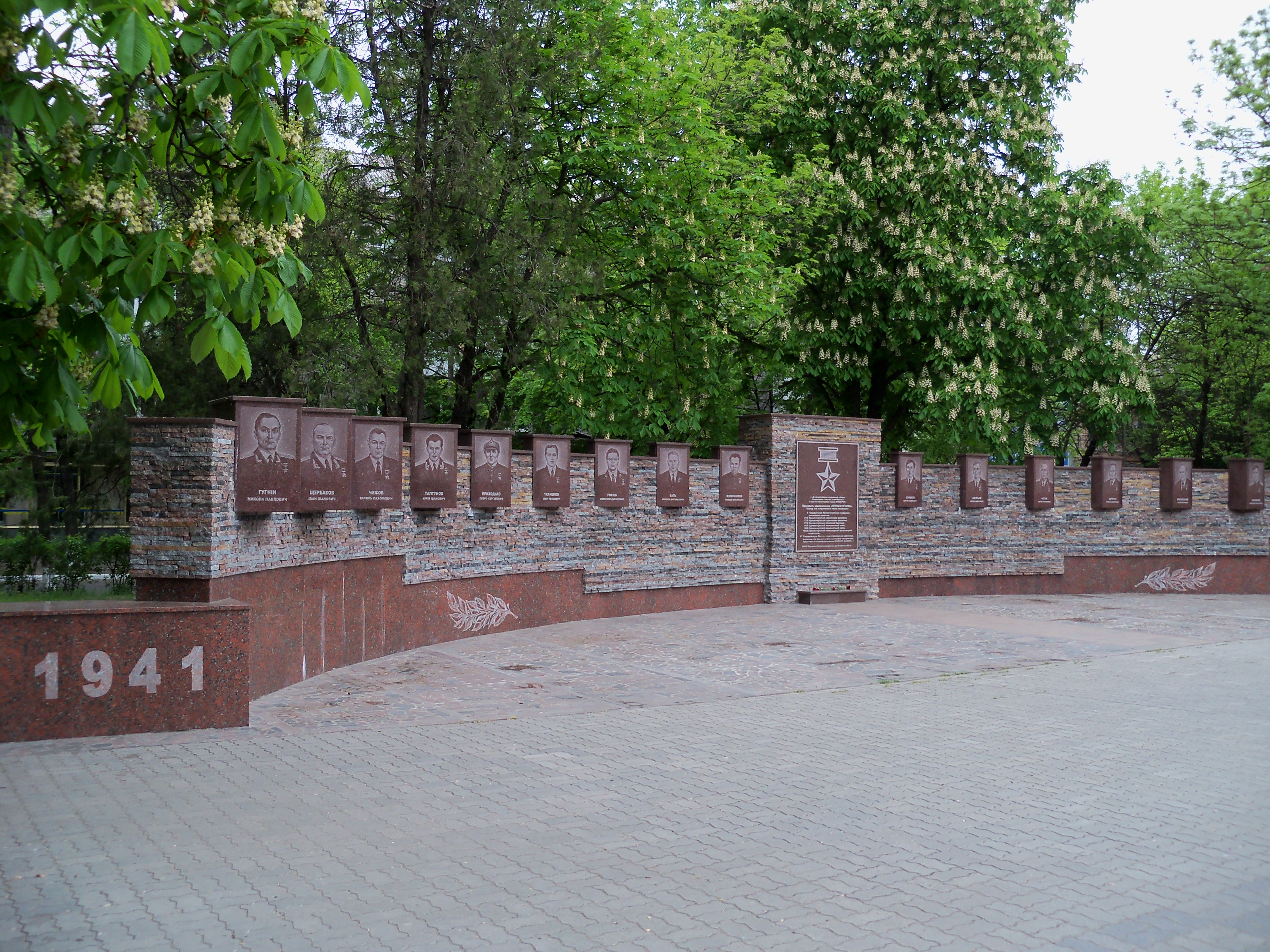 Alley of Heroes of Soviet Union in Kremenchuk (left)